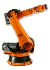 KUKA industrial robot arm